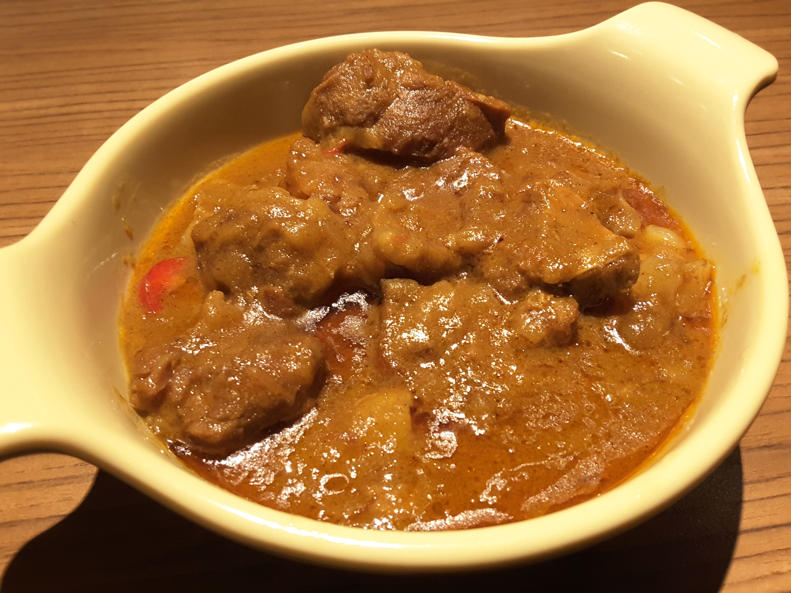 A bowl of curry brisket was sold in a fast foods restaurant in Hong Kong.